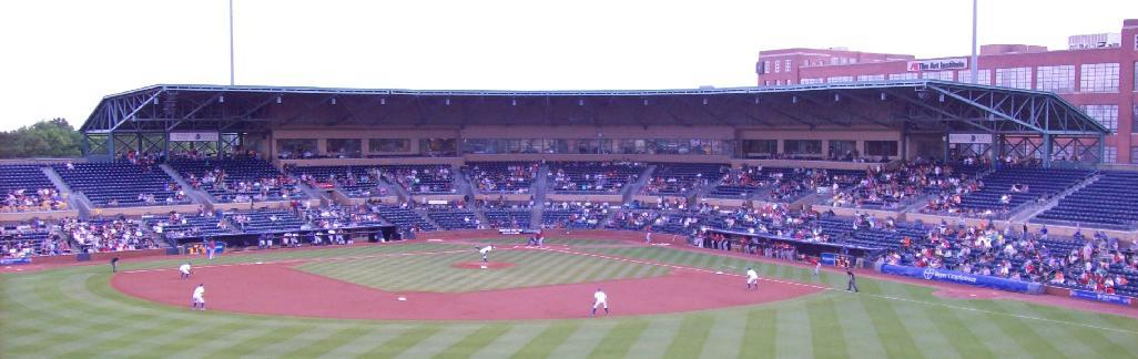 Durham Bulls Athletic Park, Durham, North Carolina